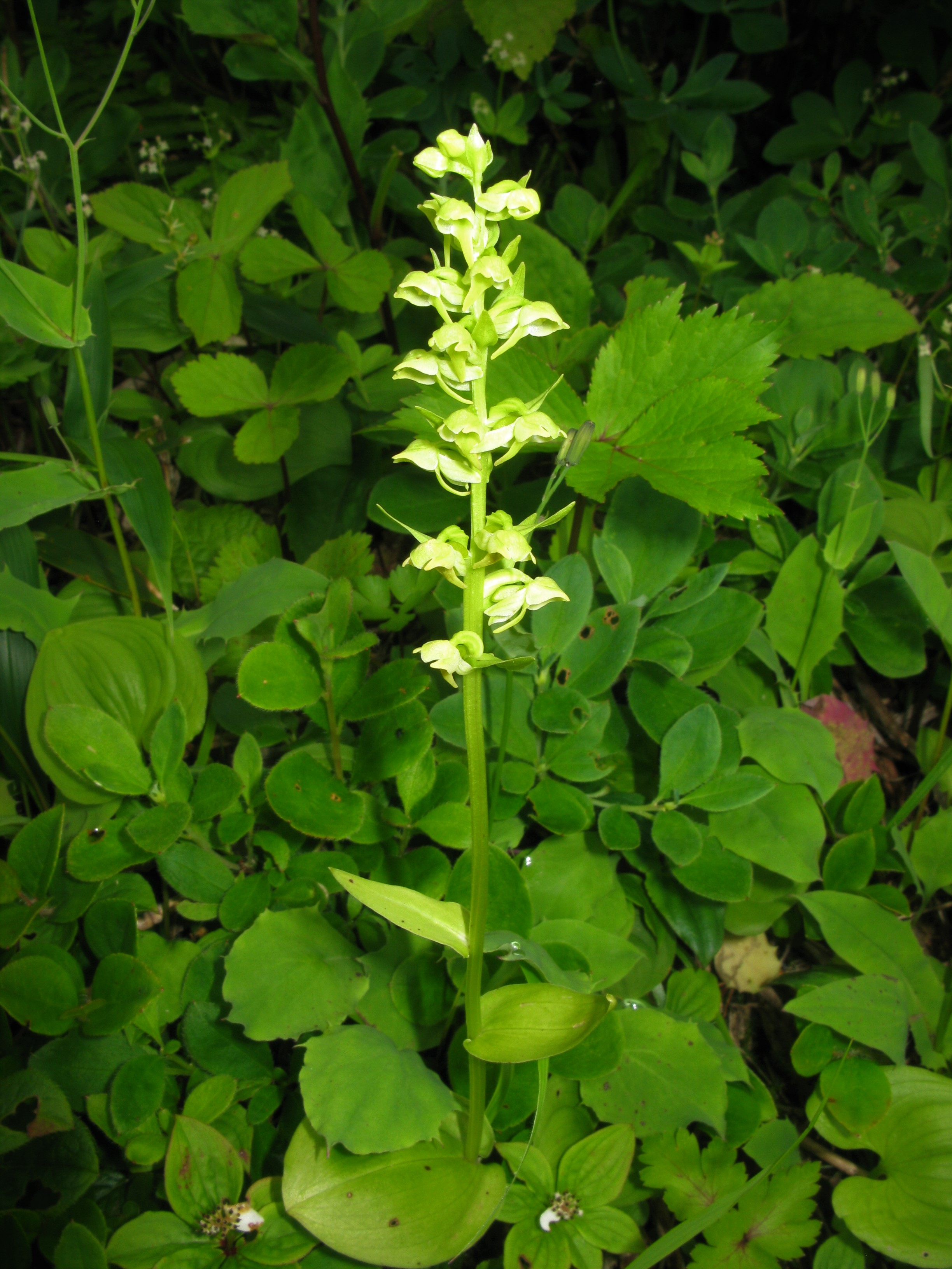 Platanthera takedae subsp. uzenensis, Mount Iide-san, Fukushima pref., Japan